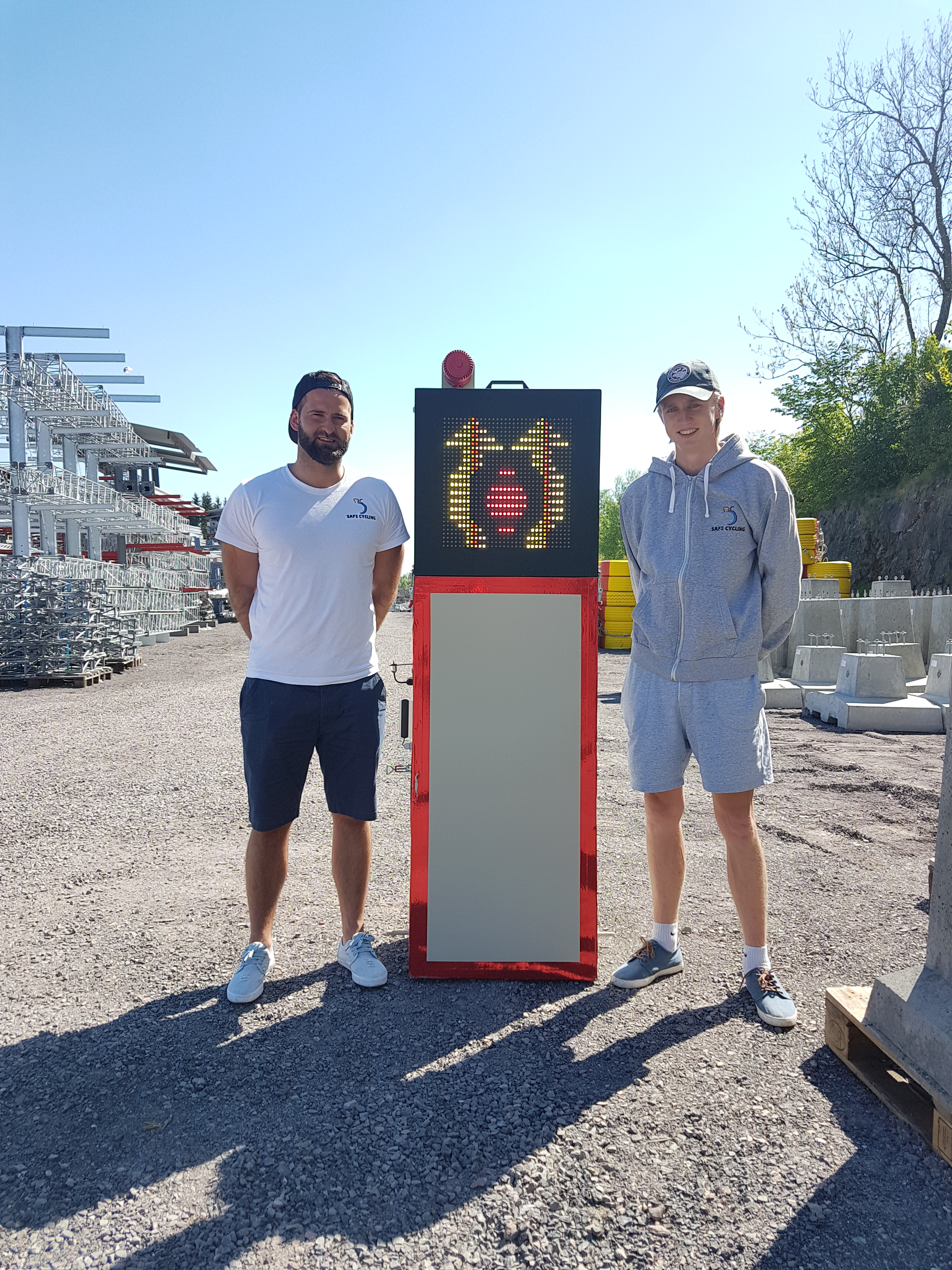 Markus and Reno with the first prototype of the safety sign